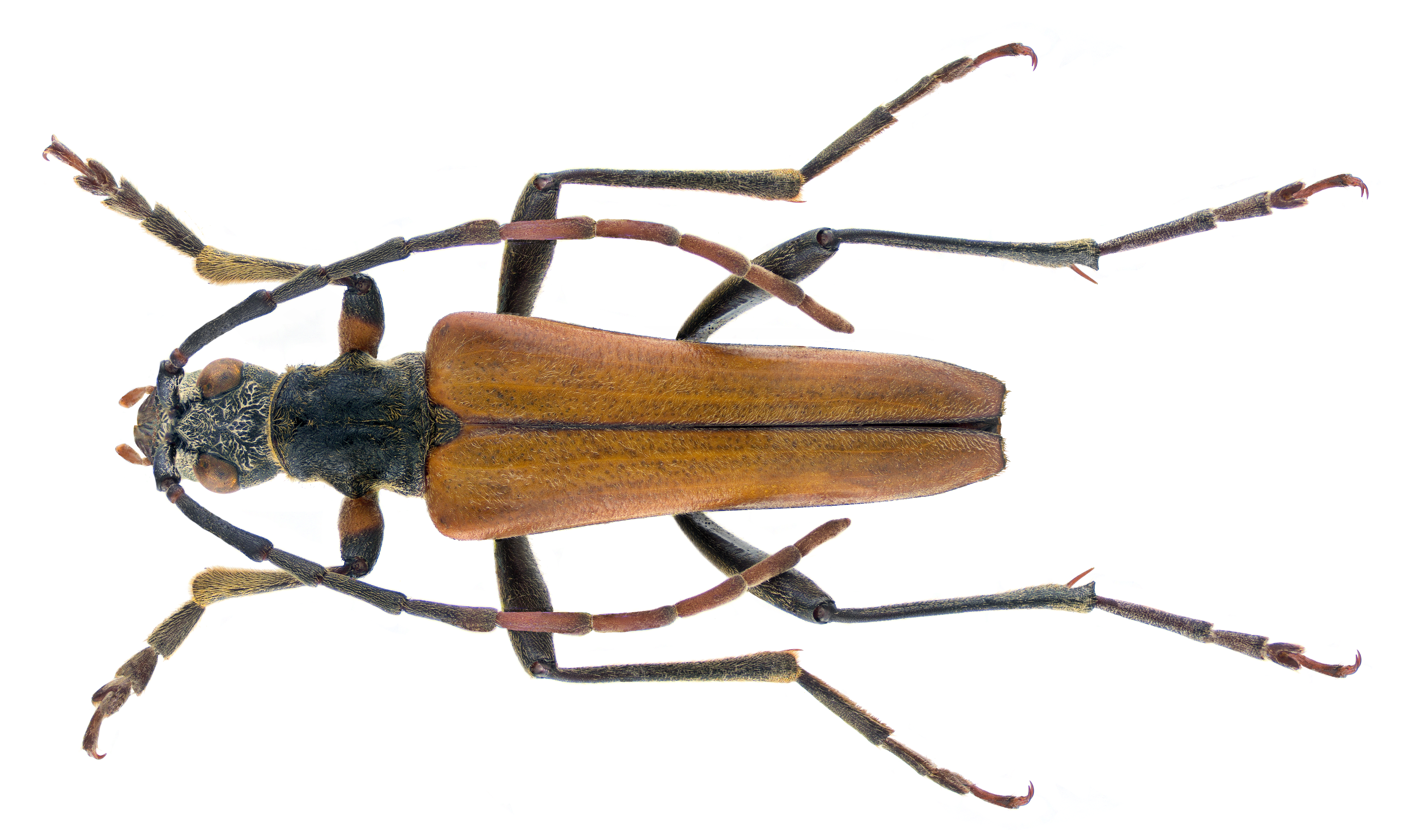 Family: Cerambycidae Size: 16.7 mm Location: Russia, Far East, South Ussuri region, Zanadvorovka vic. leg. S.Kunitzin, VI.2002; det. A.Weigel, 2017 Photo: U.Schmidt, 2017